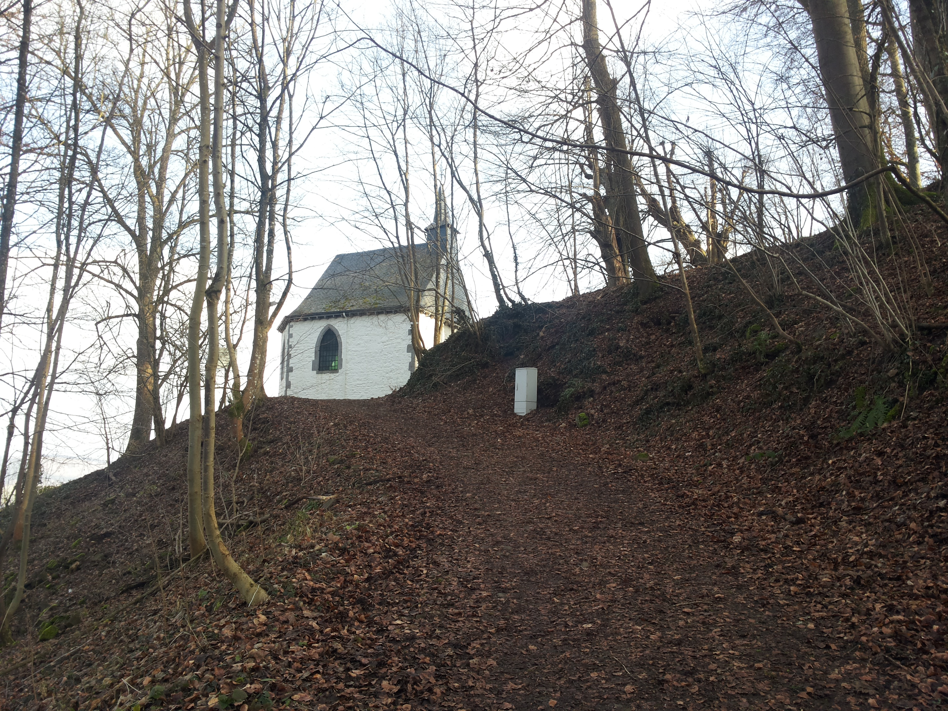 Hermitage and chapel of Saint-Thibaut, Marcourt, Rendeux, Belgium